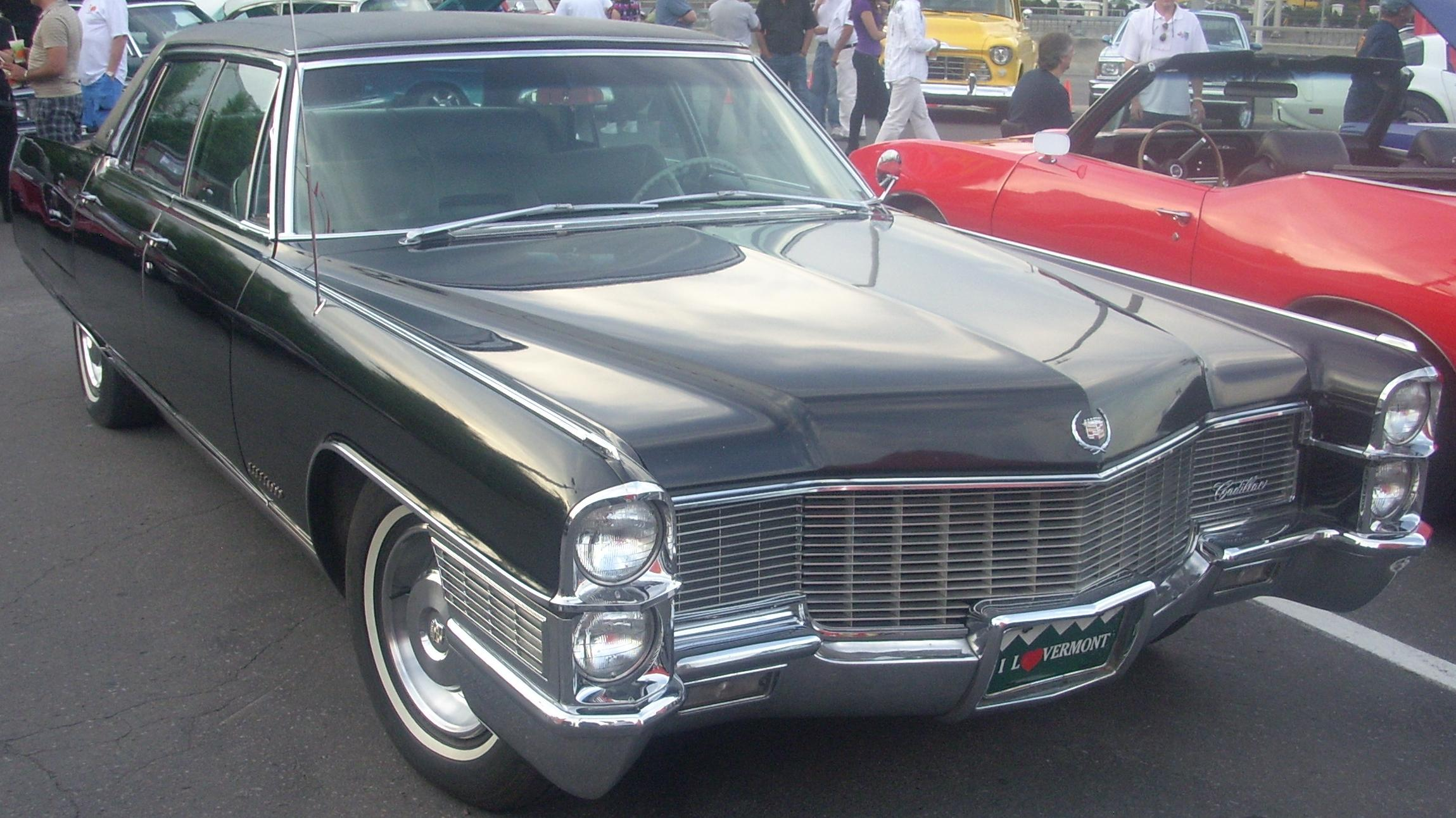 Cadillac Fleetwood photographed in Montreal, Quebec, Canada at Gibeau Orange Julep.